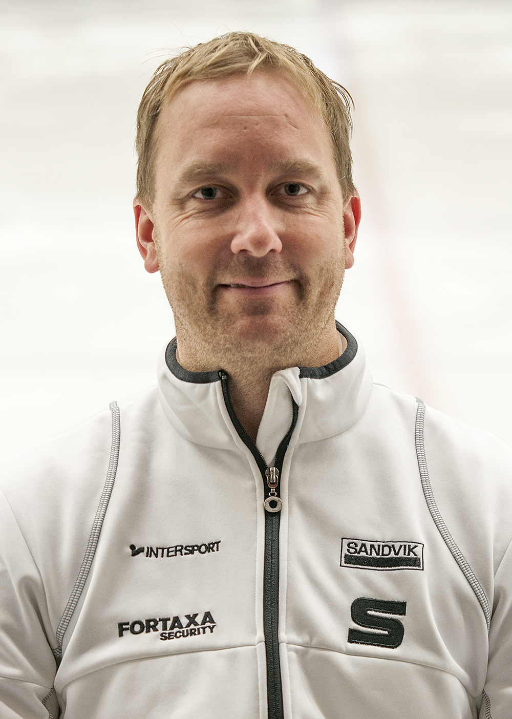 Henrik Hagberg, October 29, 2015